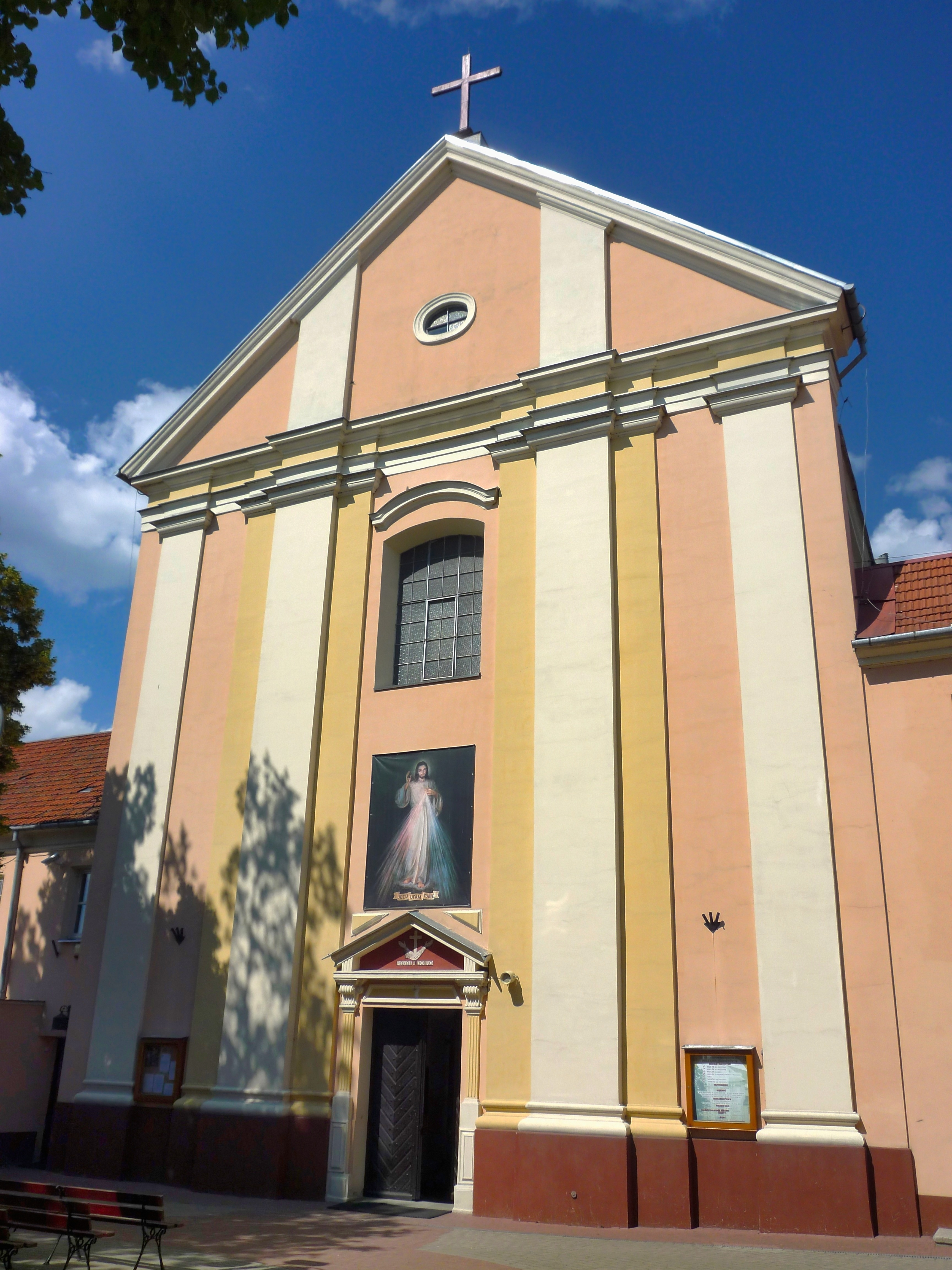 Capuchin parish church (XVIII century) in Łomża